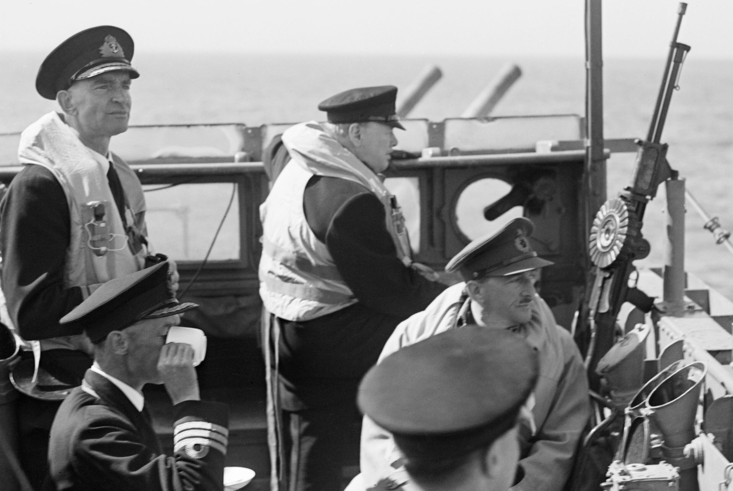 Winston Churchill and General Sir Alan Brooke, Chief of the Imperial General Staff, on the bridge of HMS KELVIN during a visit to Normandy, 12 June 1944. Winston Churchill on the bridge of HMS KELVIN looking toward the coast of France during a visit to the Normandy front. He was accompanied by General Sir Alan Brooke, Chief of the Imperial General Staff (seated in front). Note the stripped Lewis gun mounted on the side of the bridge.